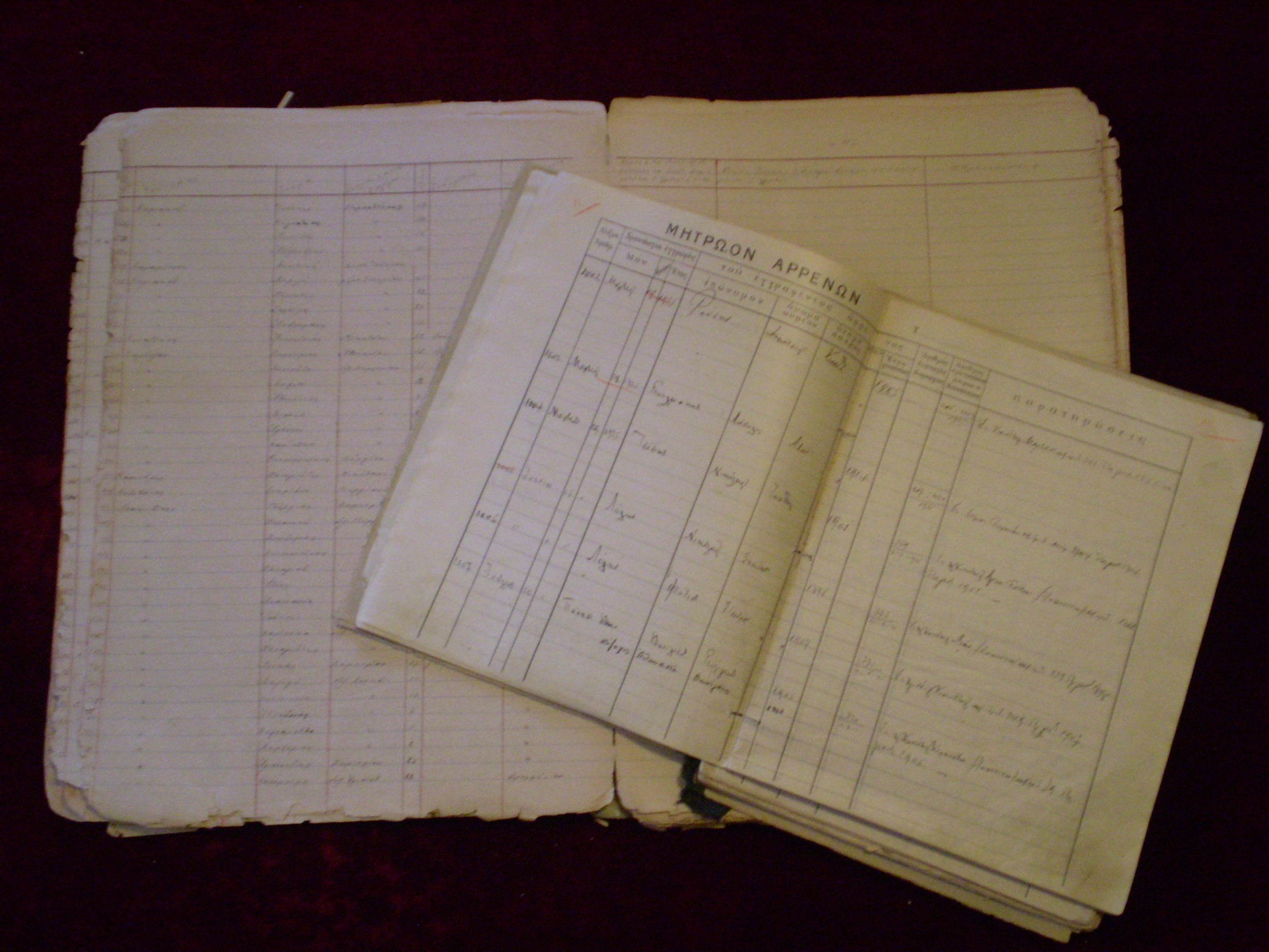 Macedonian settlers, of Atalanti's region, archive.